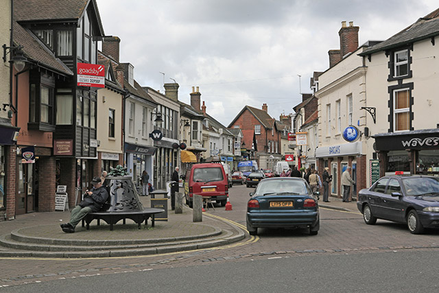 Fridays Cross, Ringwood. Looking along the High Street. Christchurch Road enters from left and departs right as Southampton Road. The black acorn-themed seat in left foreground was donated by Hampshire County Council. There is usually a jumble of vehicles fighting to enter or leave the High Street here.